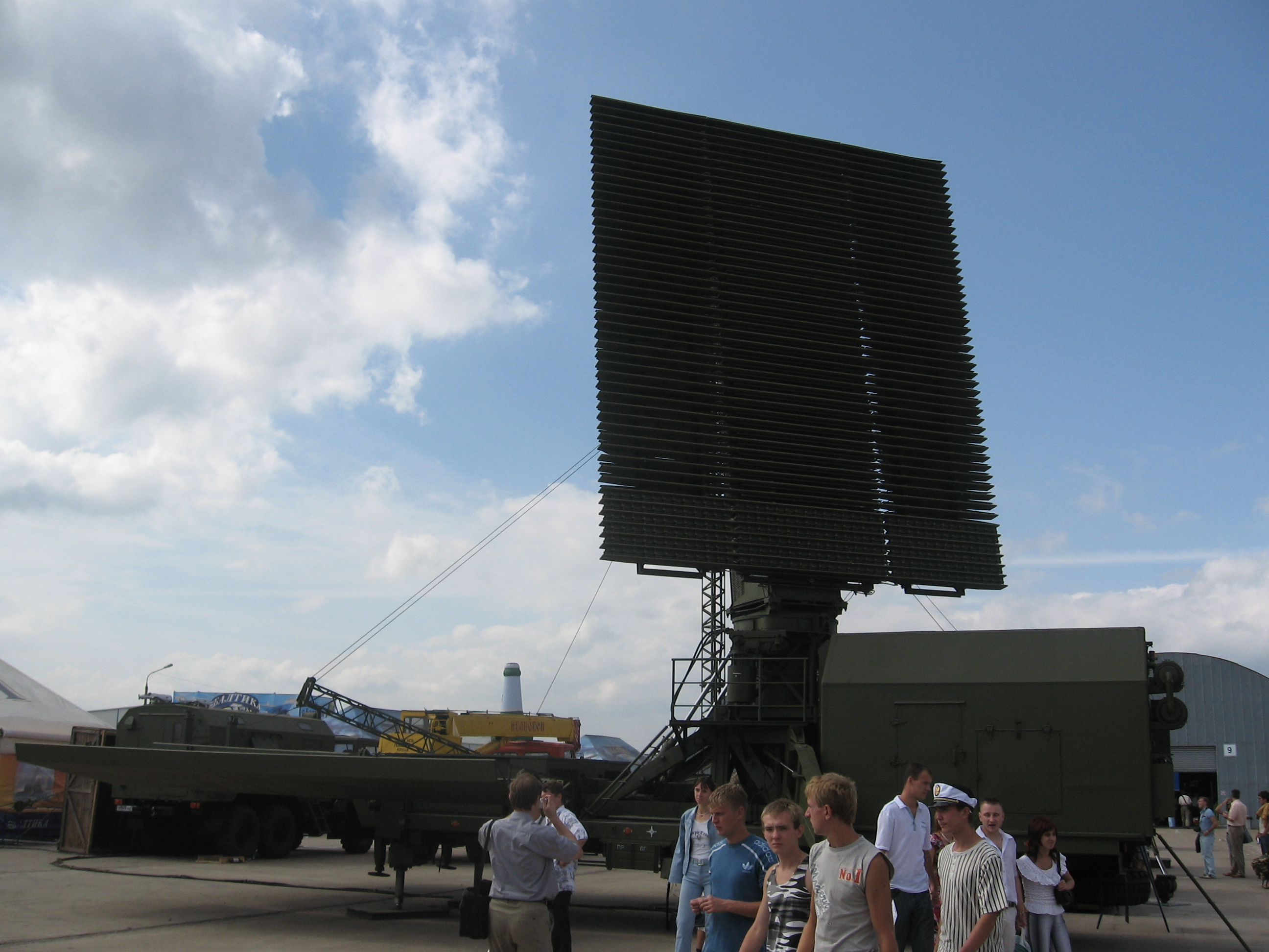 Protivnik-GE at MAKS-2007